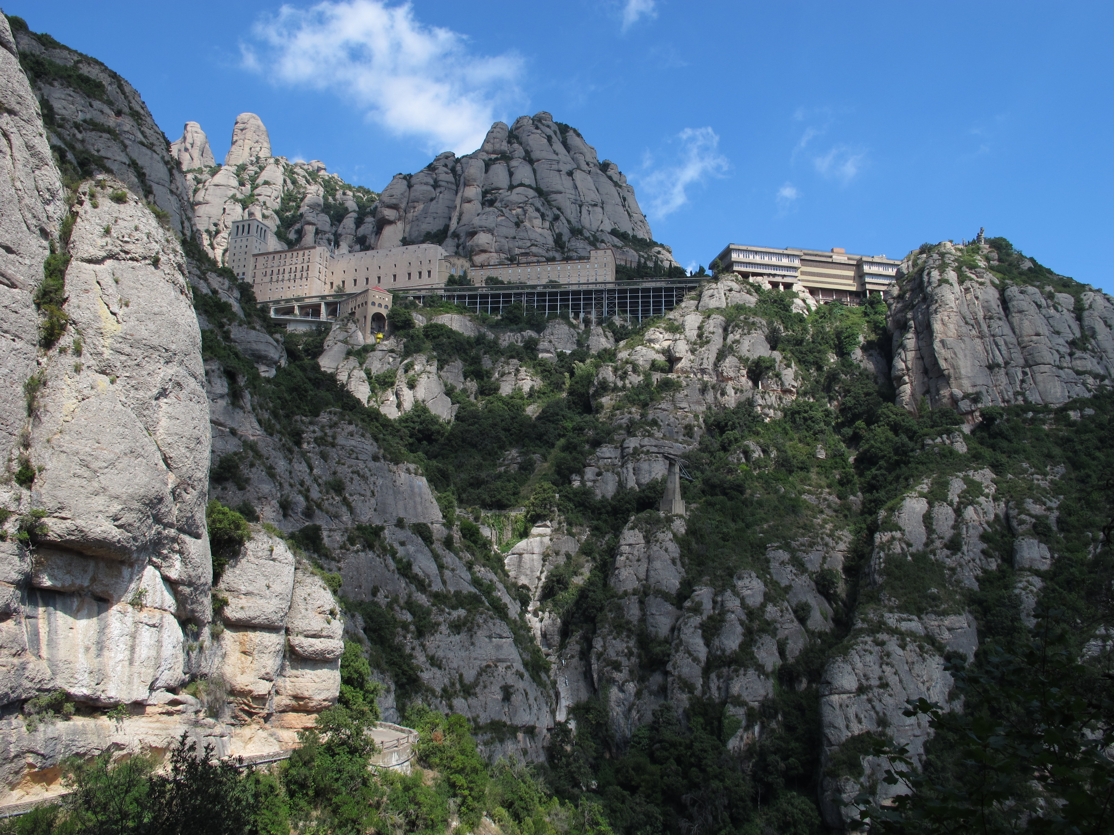 Monastery Montserrat in Catalonia, Spain